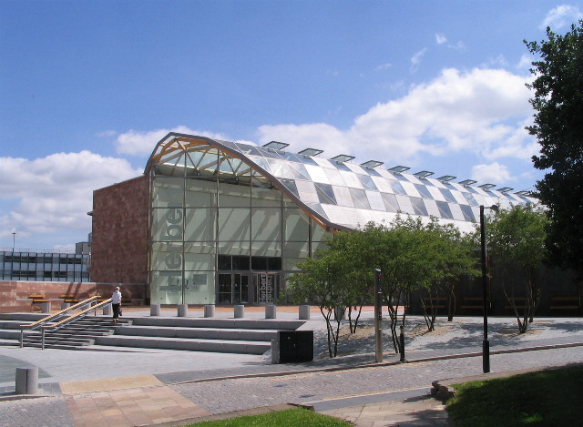 The Herbert extension The extension to the Herbert Art Gallery and Museum. This part houses a new gallery and a history/archives area. When this photo was taken it was not yet fully open.